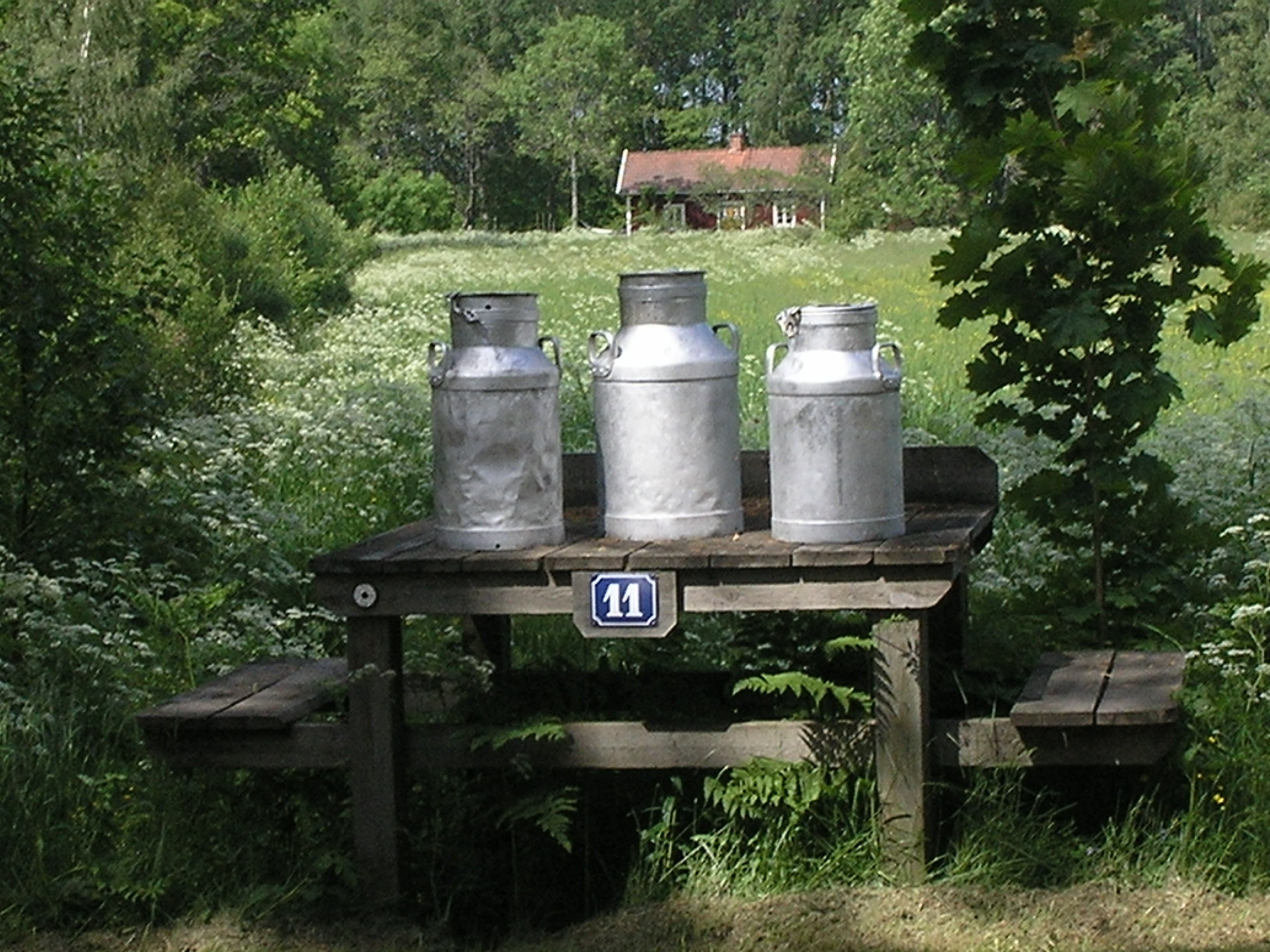 Milk churns on an old milk churn stand, Göta Canal cycling way, Sweden